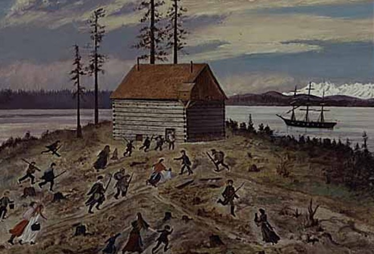 Yakima War - Seattleites evacuate to the town blockhouse as USS Decatur opens fire on advancing tribal forces. - Emily Inez Denny was the eldest child of early settler David Denny and his wife, Louisa Boren Denny. She was born in 1853, two years after her parents landed at Alki. During her life, Denny painted and drew many scenes of Seattle's early history. One of her many paintings showed the Battle of Seattle which took place on January 26, 1856. Emily Inez Denny's painting shows Seattle's white settlers running to safety in the city's blockhouse. The ship "Decatur" sits offshore in Elliott Bay, helping to protect the settlers from a threatened Indian attack. Denny was only three years old at the time of the battle, and was carried into the fort in her mother's arms. Captioned As {}